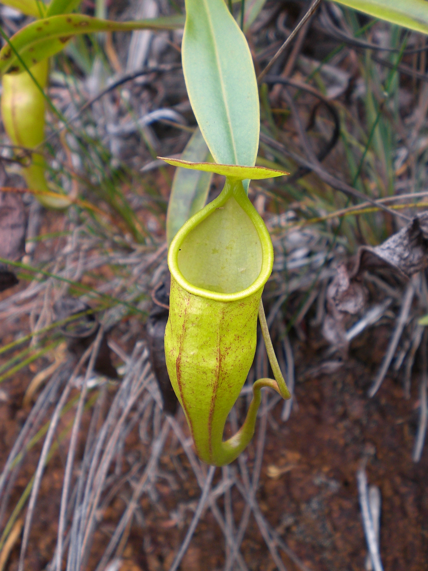 Nepenthes micramphora (endemic Pitcher plant). Found in Mount Hamiguitan Range, San Isidro, Davao Oriental Province, Mindanao islands region in the southern Philippines. Taken from Nov 29-Dec 1, 2009.